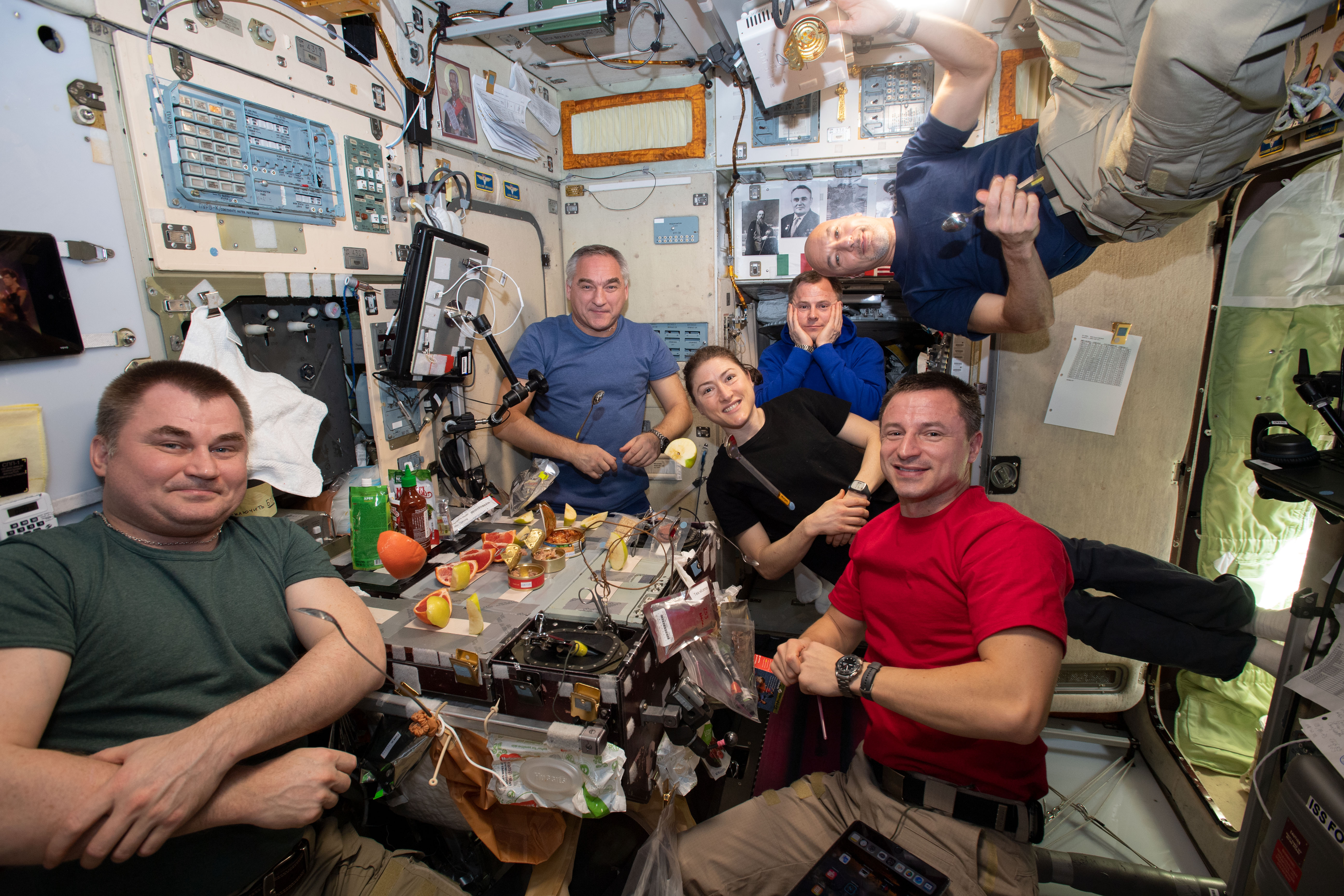 The six-member Expedition 60 crew is gathered together for dinner inside the galley of the Zvezda service module. The space residents dine on a variety of fresh fruit and canned and pre-packaged dishes. Condiments commonly available in kitchen pantries on Earth are also on the station to spice up a crew's space meals.